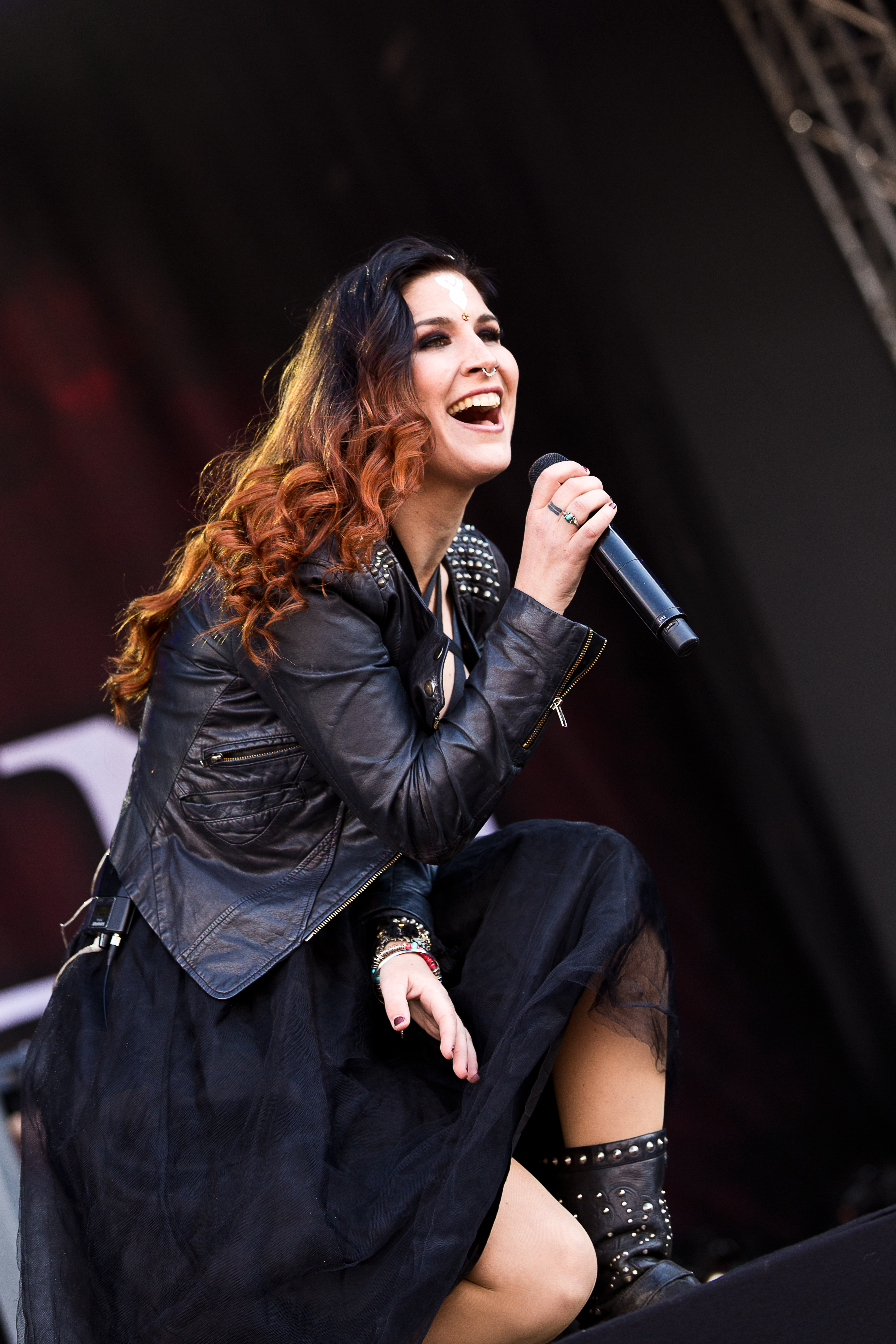 The Dutch symphonic metal band Delain at the Rockharz Open Air 2015 in Ballenstedt, Germany.